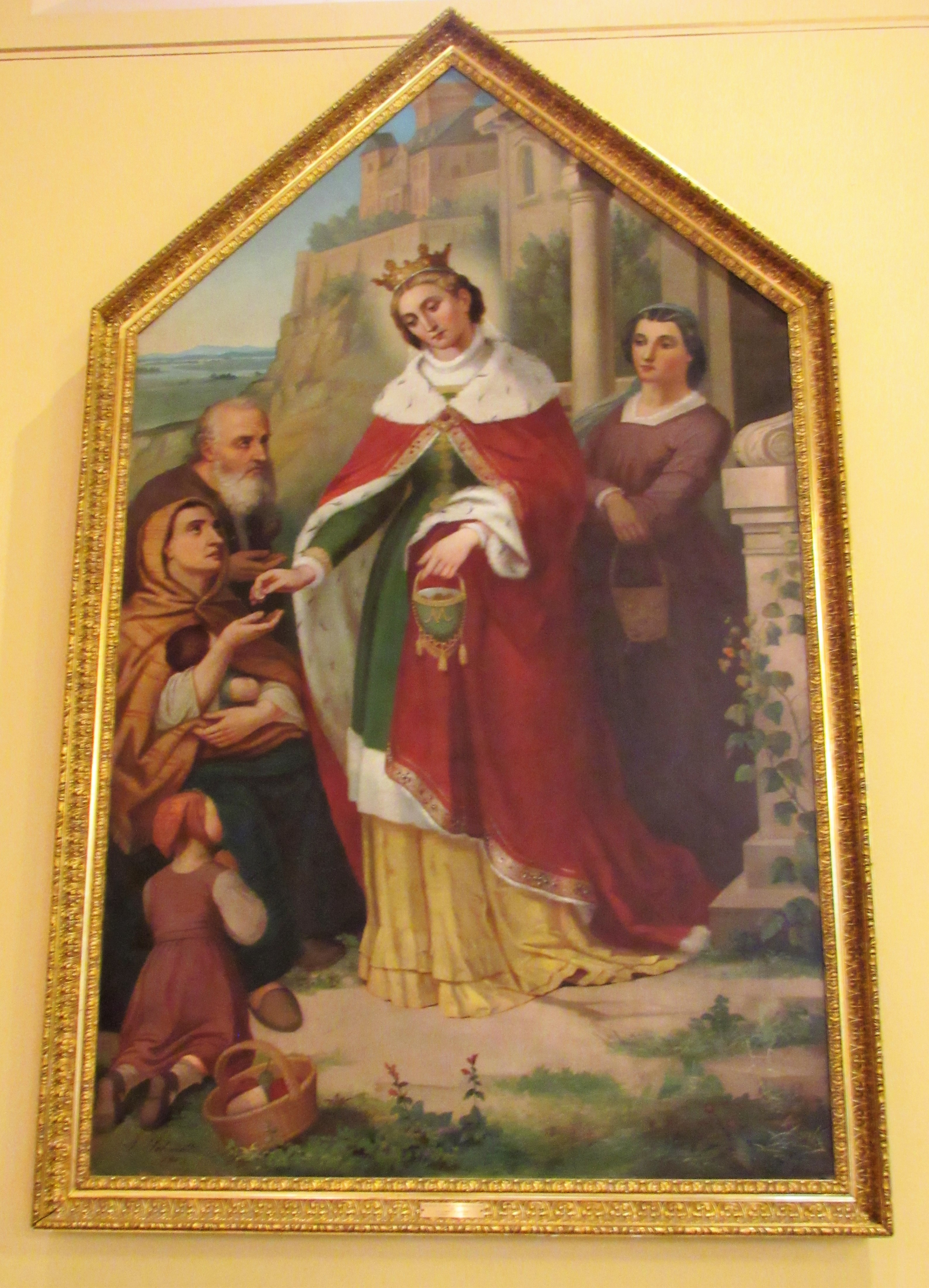 The St. Margaret of Scotland painting in Sacred Heart Cathedral in Davenport, Iowa. The painting originally hung in the former St. Margaret's Cathedral in Davenport.